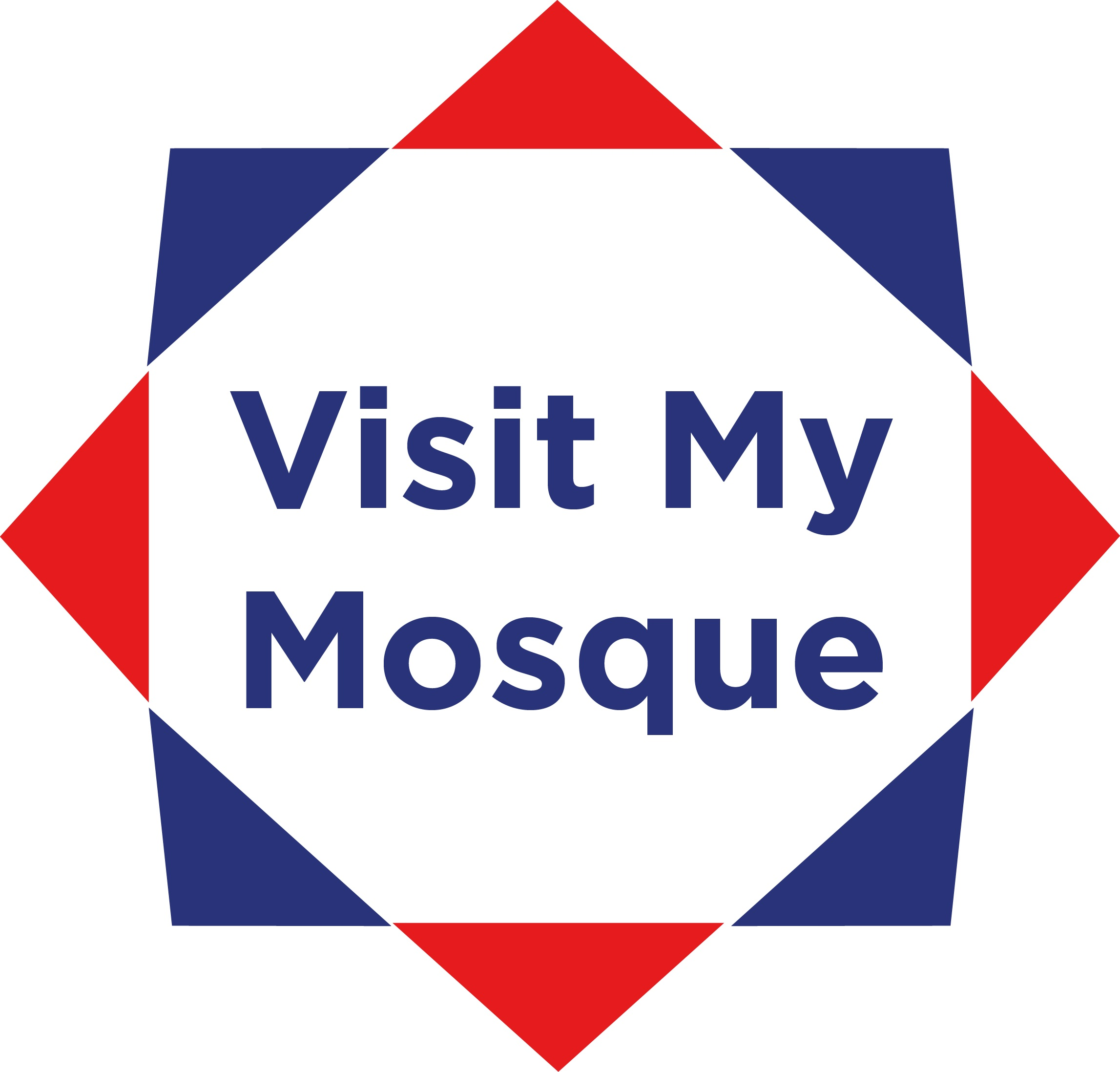 VisitMyMosque logo